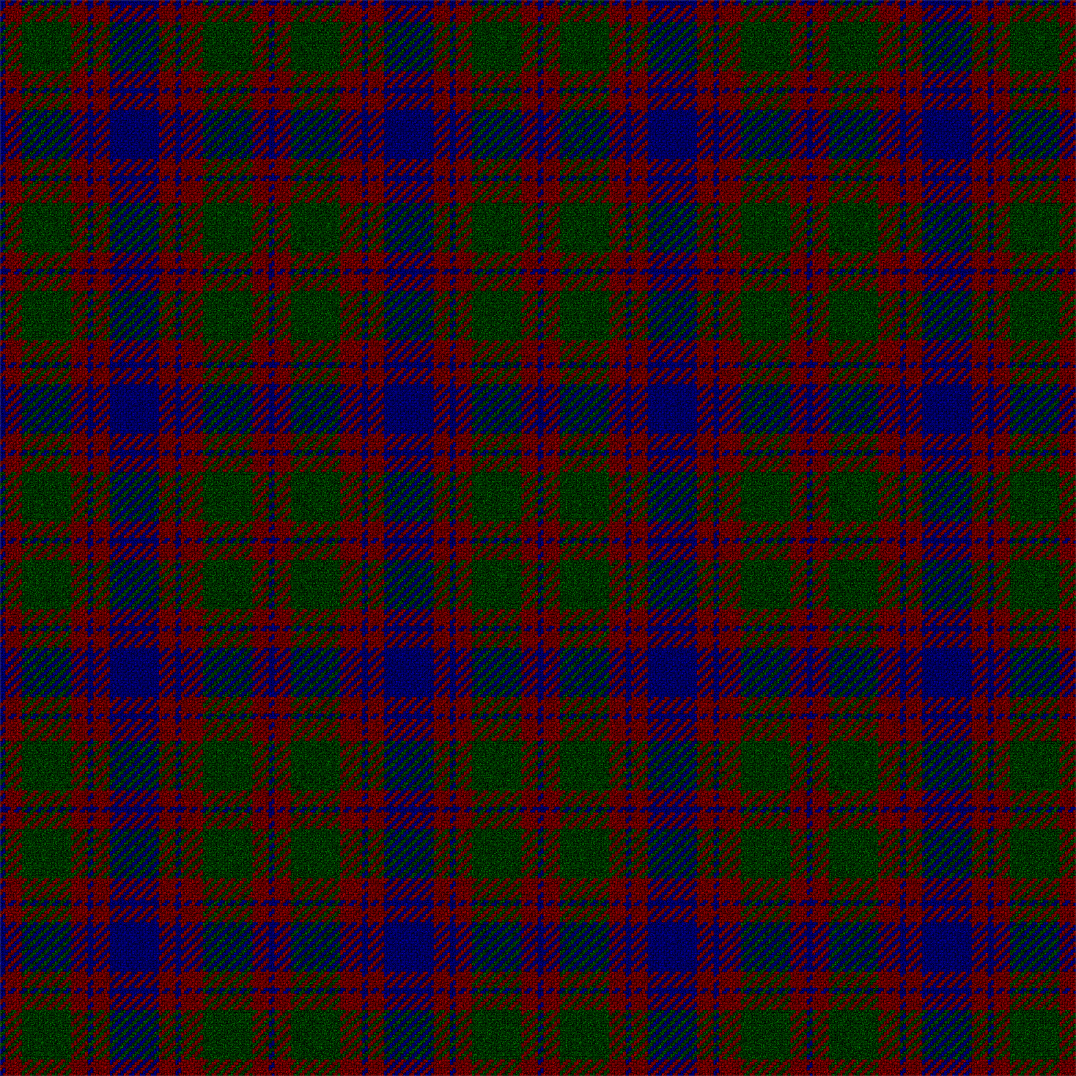 This tartan has at times been called a Logan, Skene and Rose tartan. Thread count: B2 R6 G18 R6 B2 R6 B18. (Source: The Setts of the Scottish Tartans, with descriptive and historical notes by D.C. Stewart).